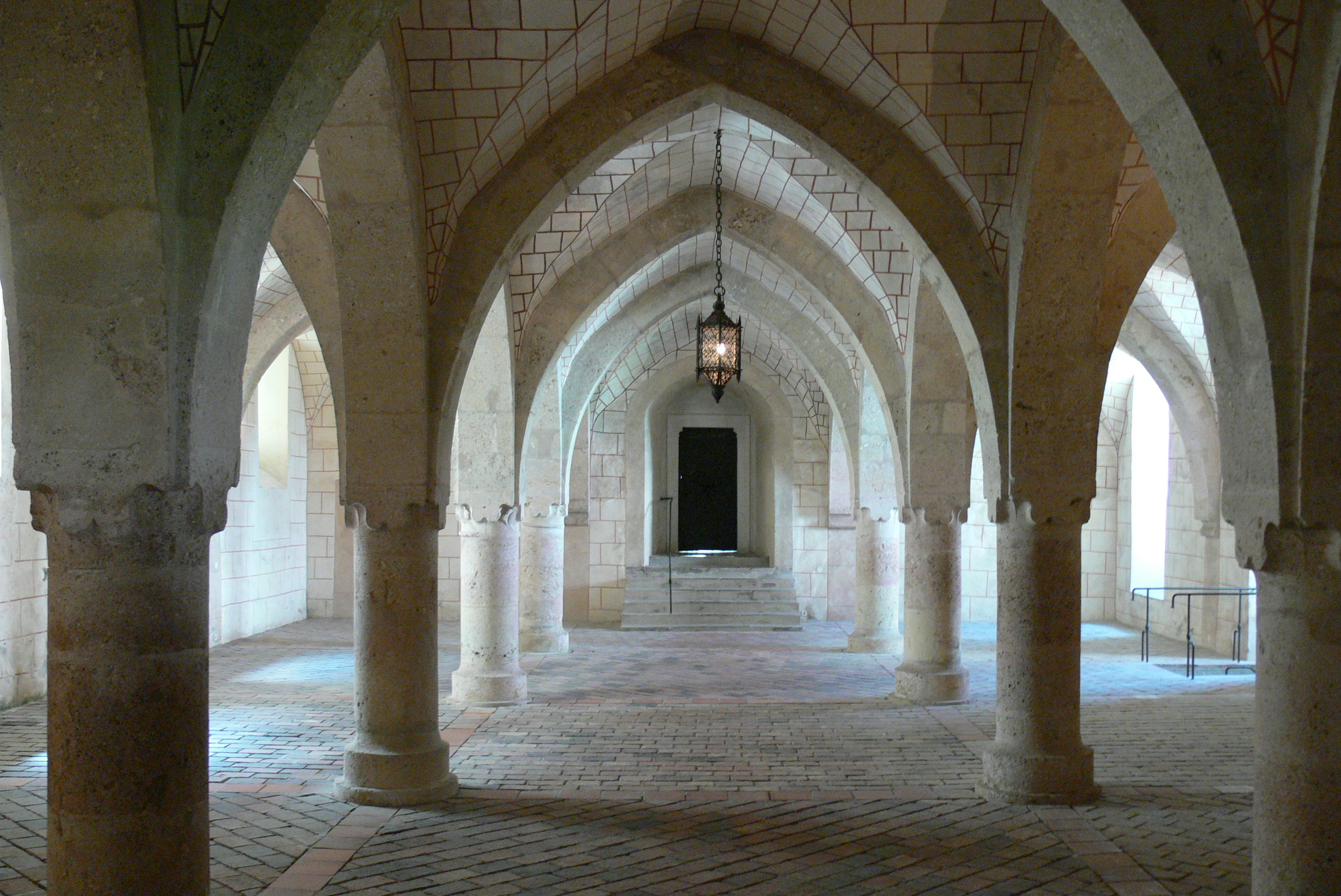 Heiligenkreuz abbey ( Lower Austria ). The "Fraterie" ( Working room for monks ).